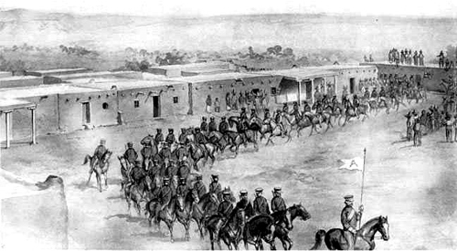 The United States Army leaving Las Vegas, New Mexico in April, 1846, after capturing the city. Illustration from the book "The History of the Military Occupation of New Mexico."